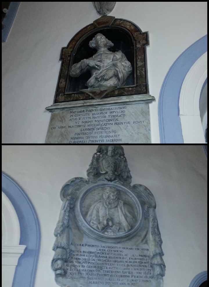 Sepolcri dei committenti del restauro